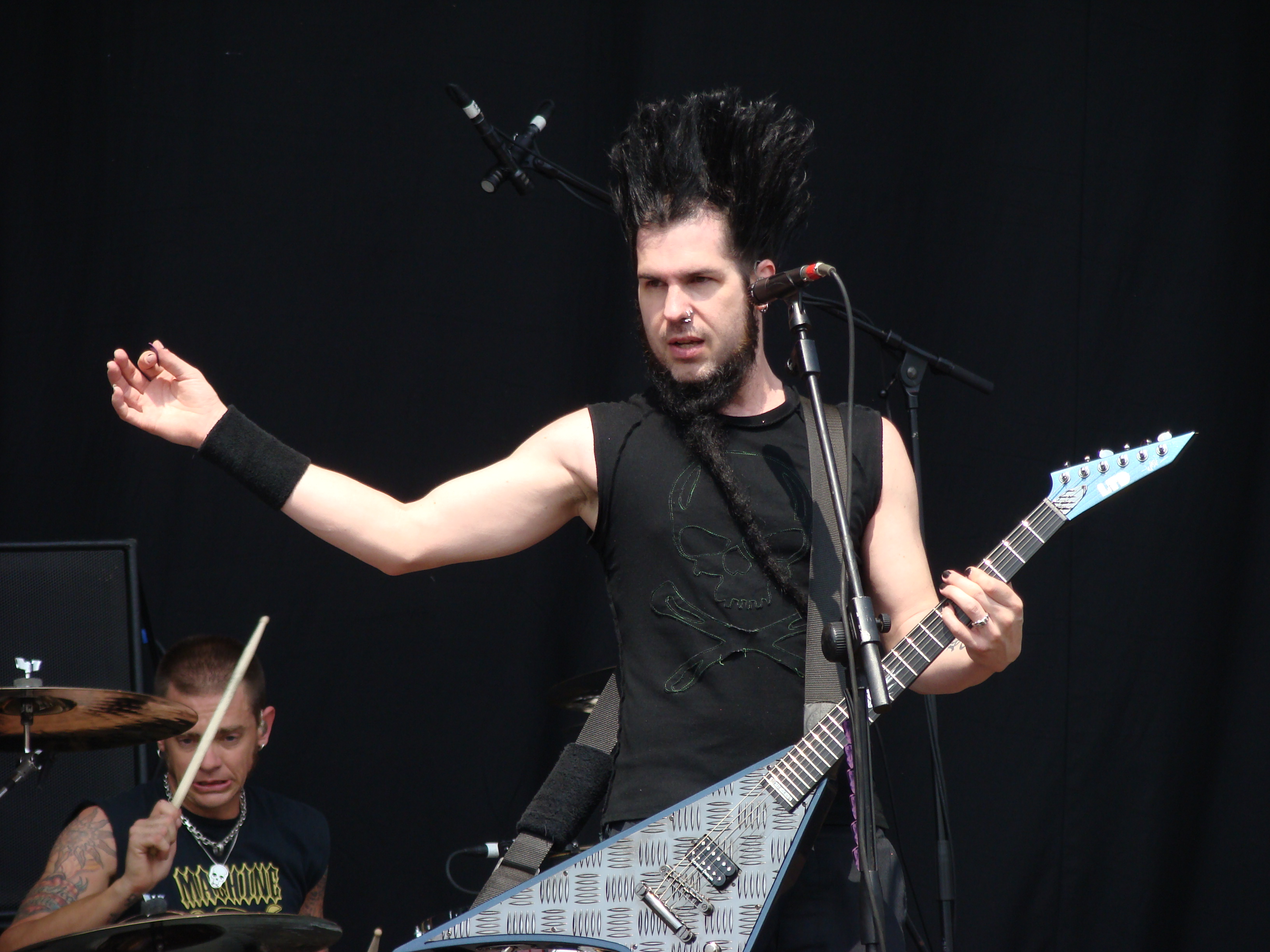 Static-X live @ Gods of Metal